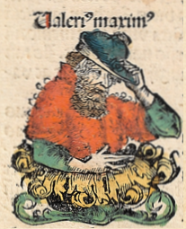 This is a part of a scan of an historical document: Title: Schedelsche Weltchronik or Nuremberg Chronicle